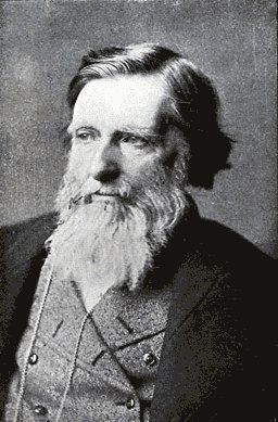 Ruskin in middle-age, as Slade Professor of Art at Oxford (1869-1879). Scanned from 1879 book.